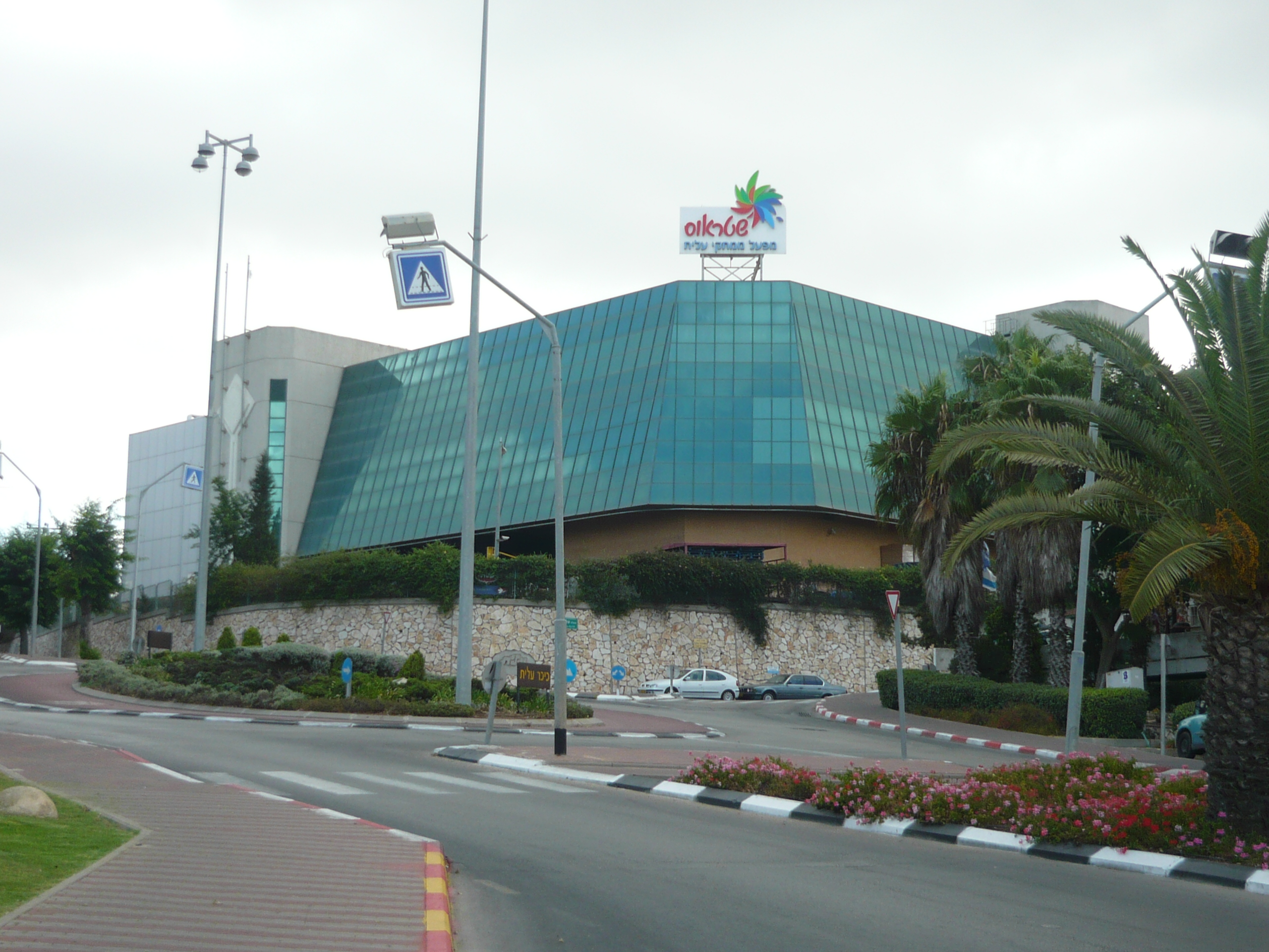 Strauss elite chocolate factory in Nazareth Illit מפעל השוקולד של שטראוס עלית בנצרת עילית